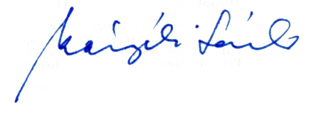 scanned autograph from Sándor Kányádi